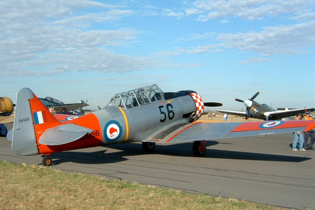 ex-Royal New Zealand Air Force AT-6D Harvard. Registered in Australia (official registration lists aircraft as AT-6D, not AT-6C model - Official registration)